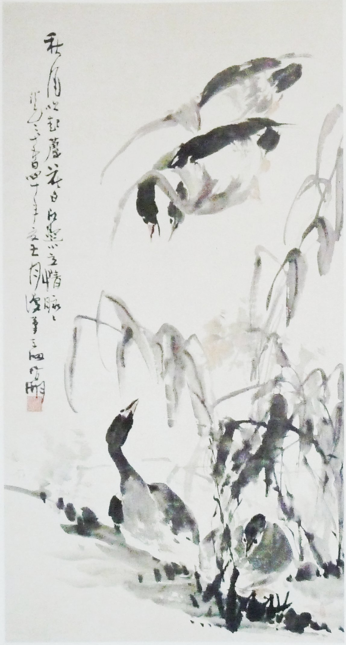 Okuhara Seiko(1837-1913) "Rogan-zu"